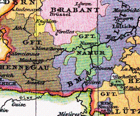 County of Namur around 1400